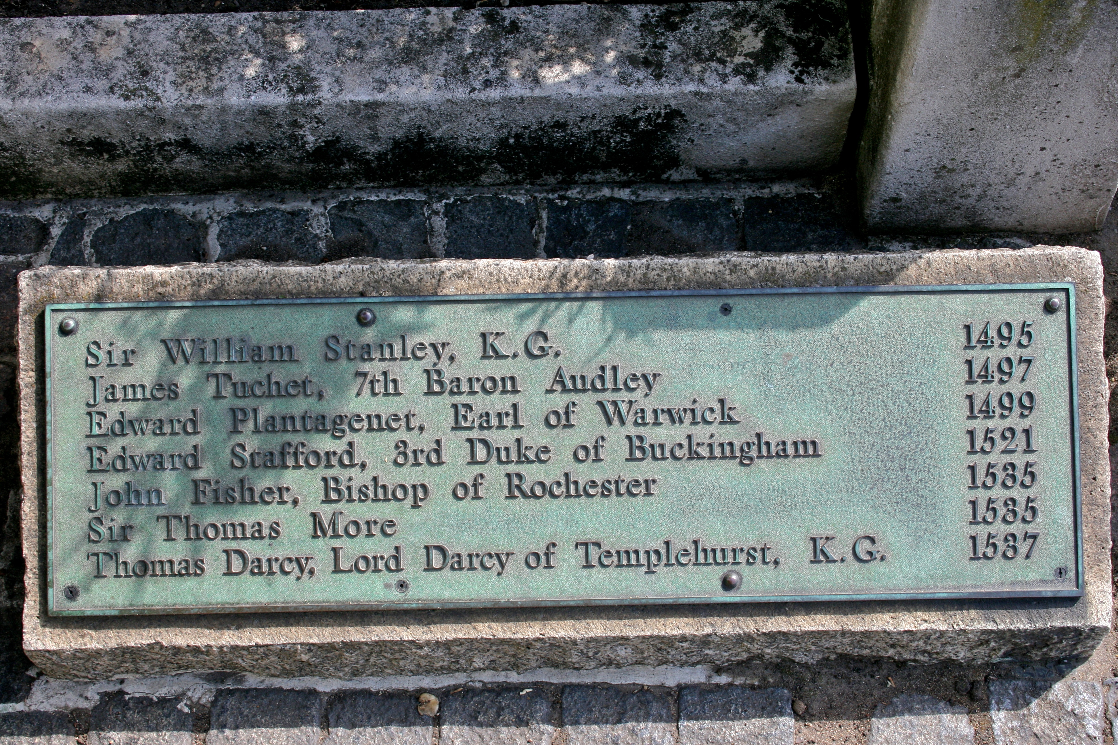 Sign at the Tower Hill scaffold location. Sign reads: "Sir William Stanley, K.G. 1495 James Tuchet, 7th Baron Audley 1497 Edward Plantagenet, Earl of Warwick 1499 Edward Stafford, 3rd Duke of Buckingham 1521 John Fisher, Bishop of Rochester 1535 Sir Thomas More, 1535 Thomas Darcy, Lord Darcy of Temlehurst, K. G. 1537"